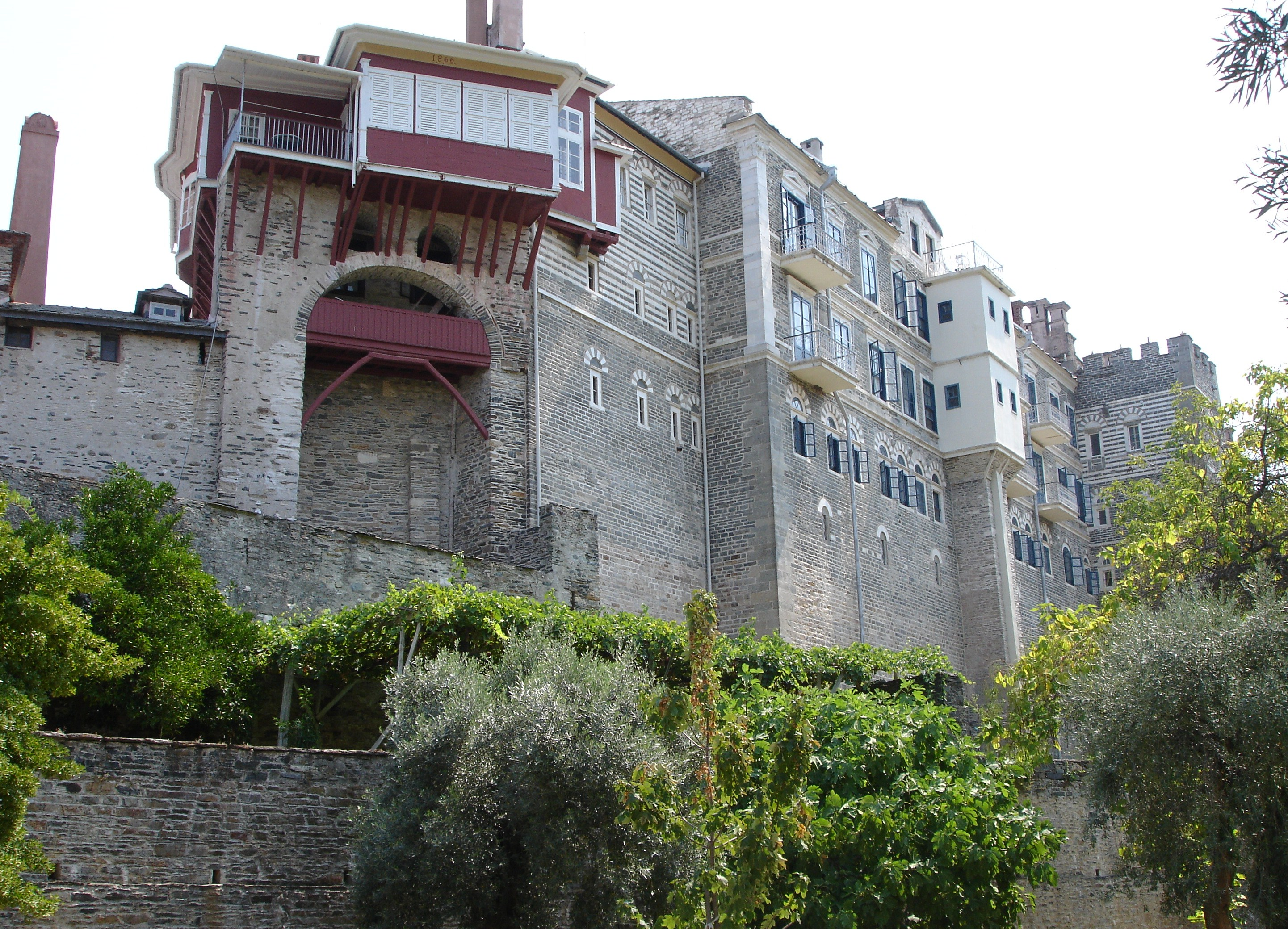 Vatopedi monastery, Agio Oros, Greece